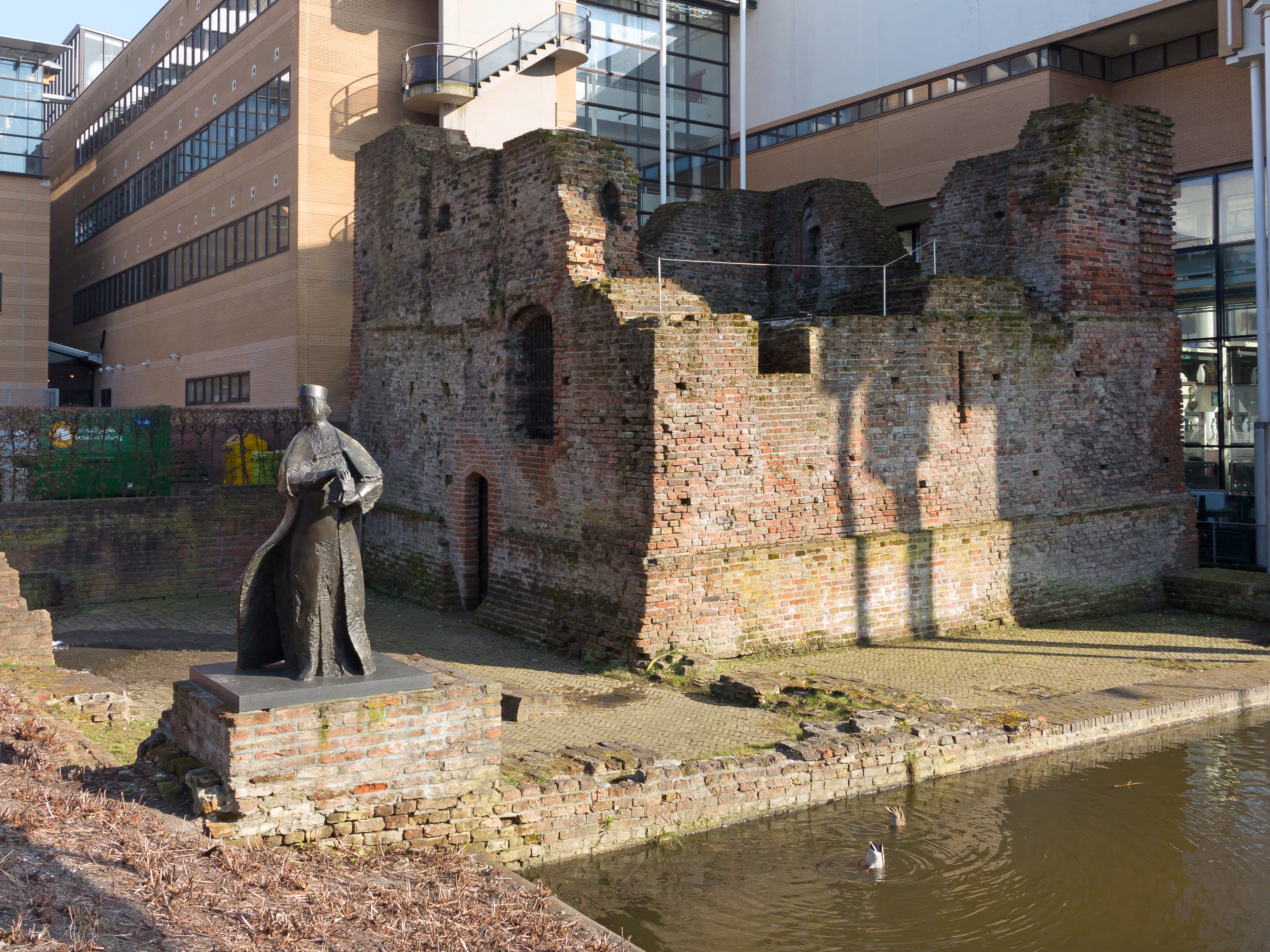 Schiedam, former castle: Huis te Riviere